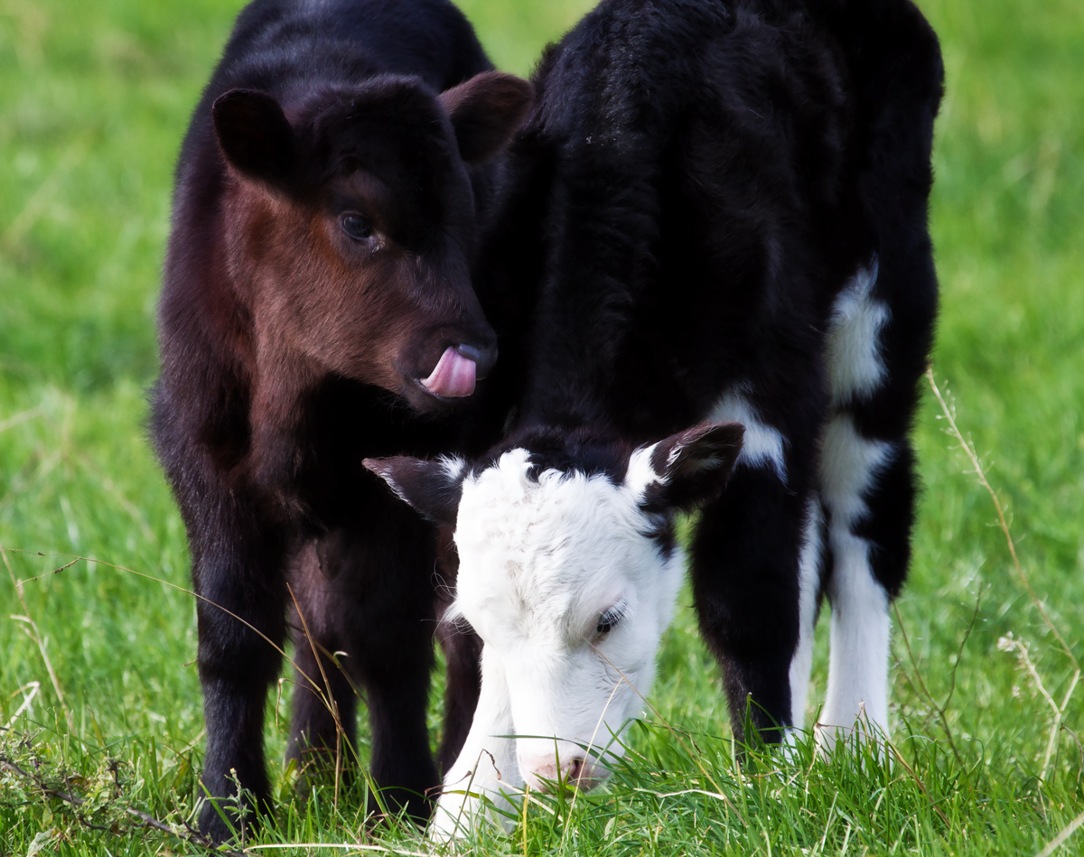 A couple of calves keeping each other company in a paddock near Okato, New Zealand.